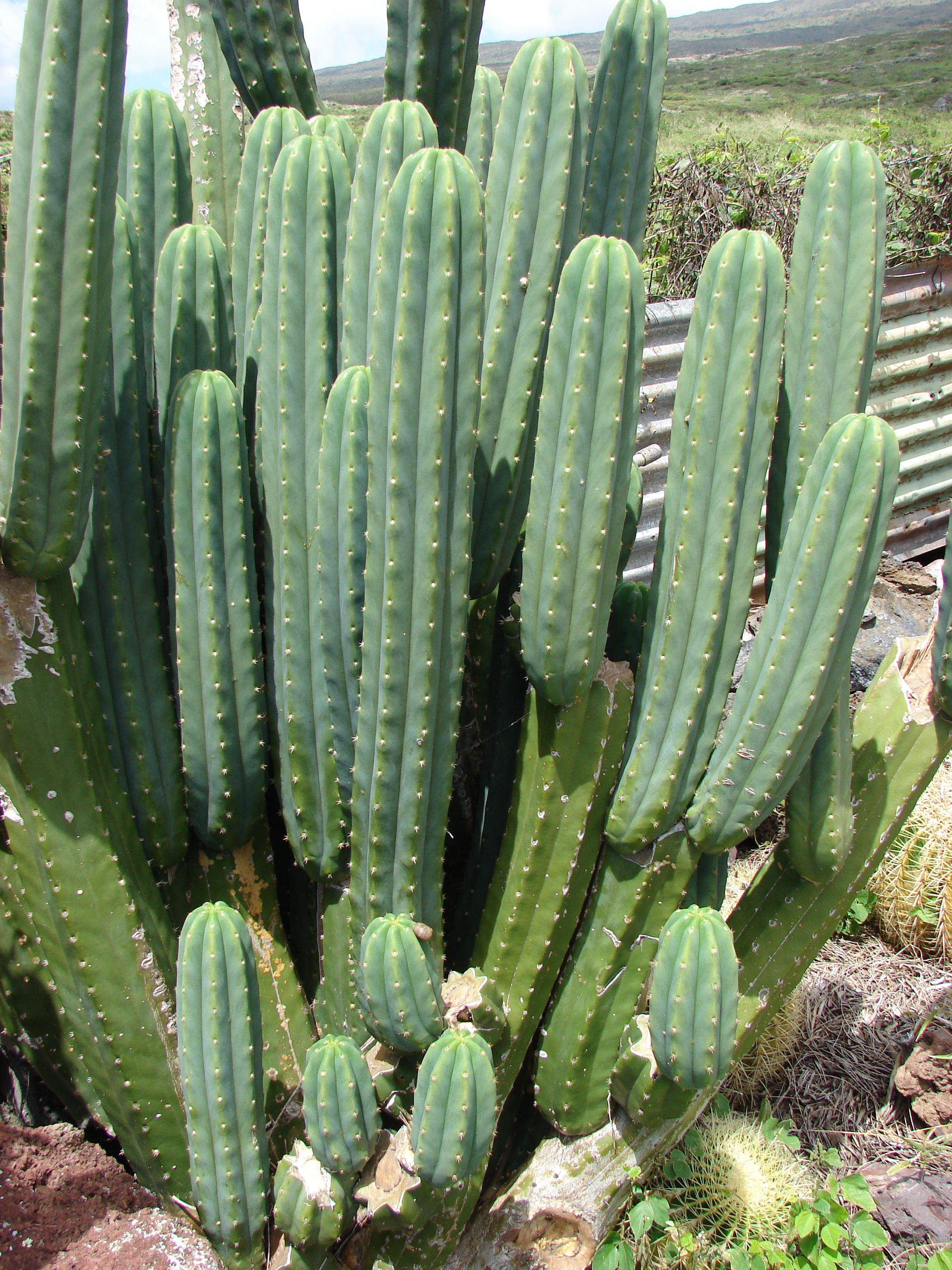 Echinopsis pachanoi (habit). Location: Maui, Lualailua